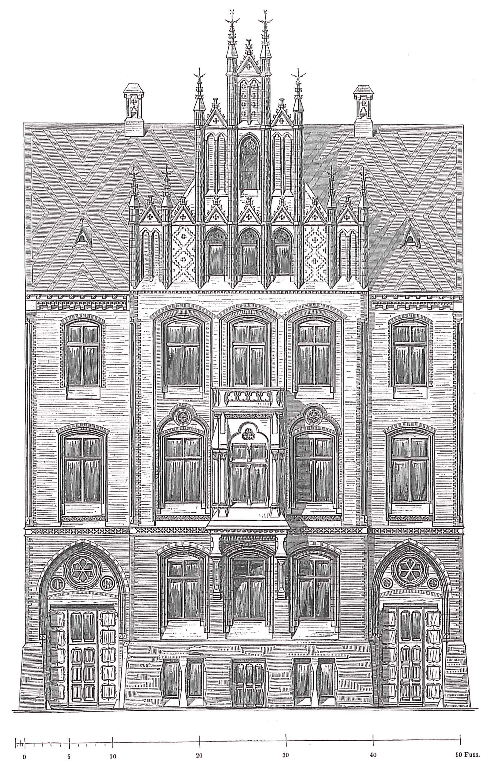 Architectural drawing of the house of merchant Hansen, errected at Nordermarkt in Flensburg, Germany. Drawing by architect Johannes Otzen (1839-1911). First published in 1870.